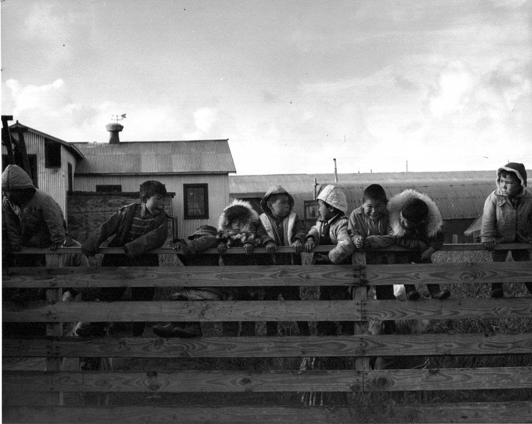 A group of children playing on a fence at the reindeer roundup on Nunivak. FWS keywords: Wildlife refuges; Children; Subsistence; Buildings, facilities and structures; Events; Indigenous populations; Alaska; TUKON DELTA NATIONAL WILDLIFE REFUGE. FWS site shows date as 1964-01-01 but this in not a midwinter photograph. Item ID FWS-5243 Source Alaska Region Library Rights Public domain